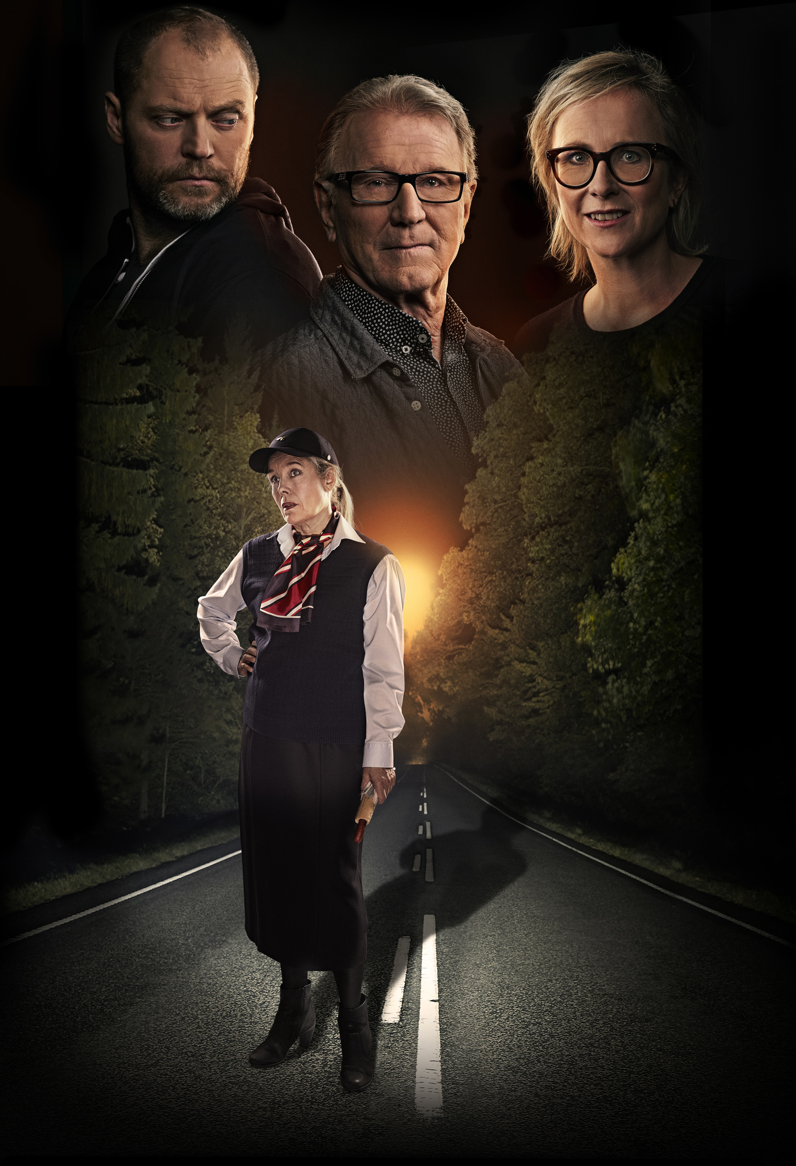 Marianne Høgsbro, Jacob Lohmann, Lisbeth Wulff and Finn Nielsen in the Copenhagen theater Folketeatret's production of the play "Til (ingen verdens) nytte" by Thomas Markmann.